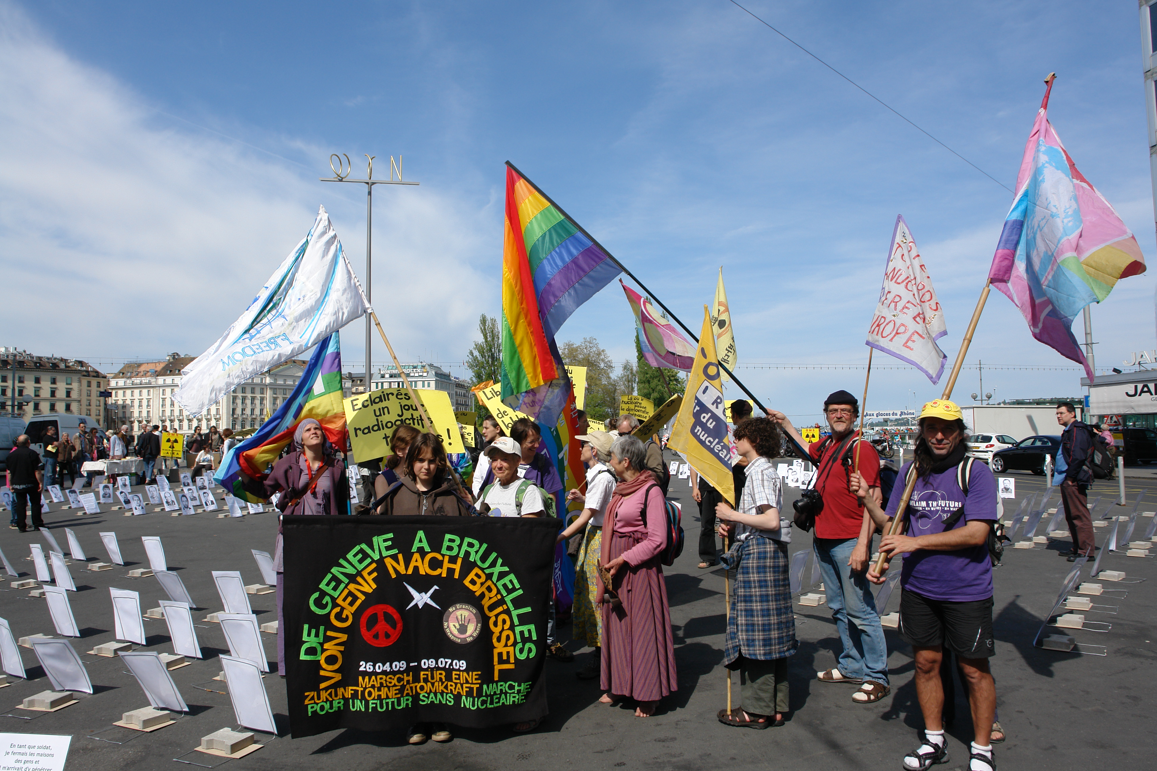 Start of Antinuclear Walk Geneva-Brussels, Geneva, April 25, 2009.